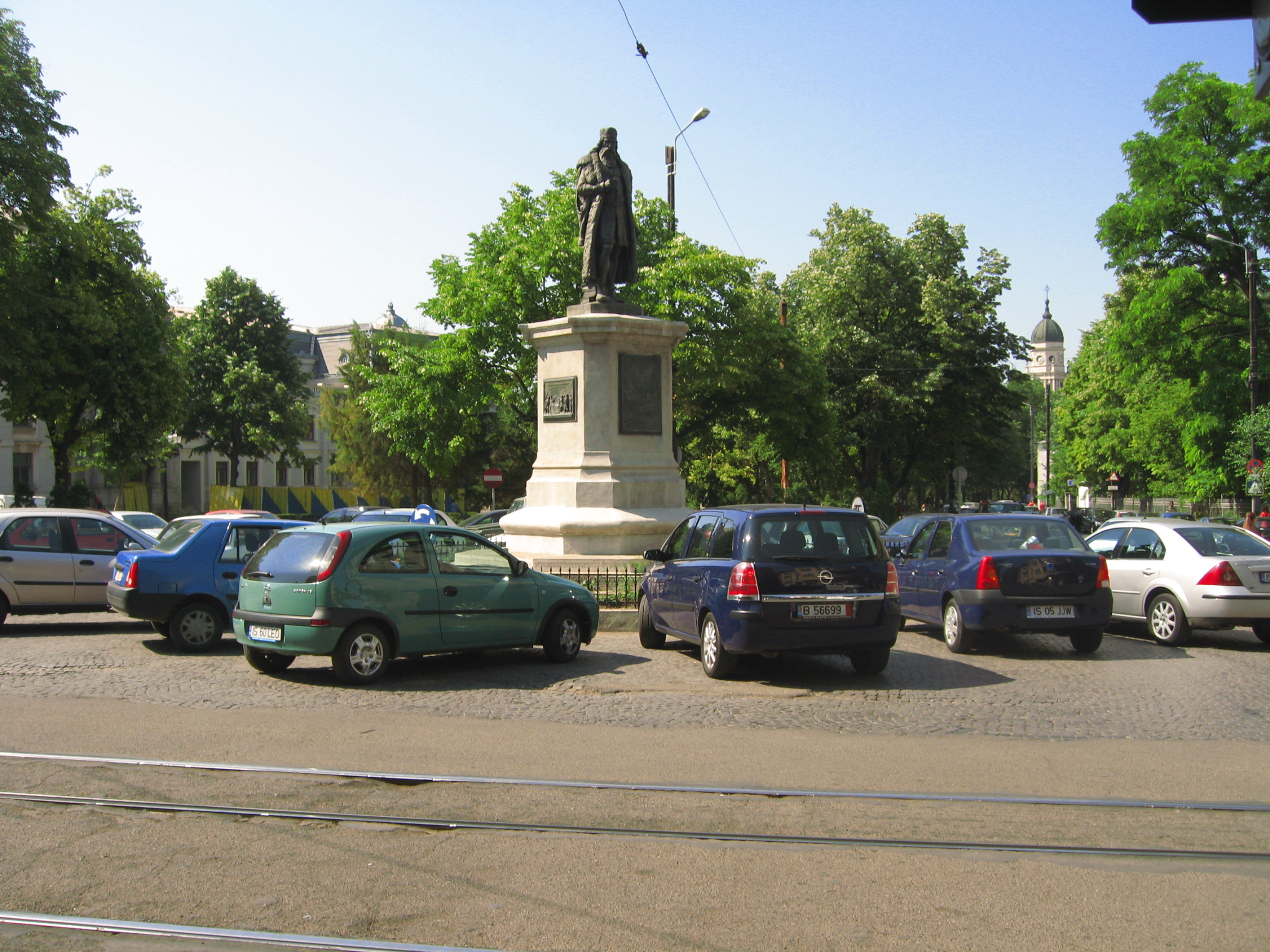 Monument to Miron Costin, Wladimir Hegel, IaşiRomână: Statuia lui Miron Costin din Iaşi